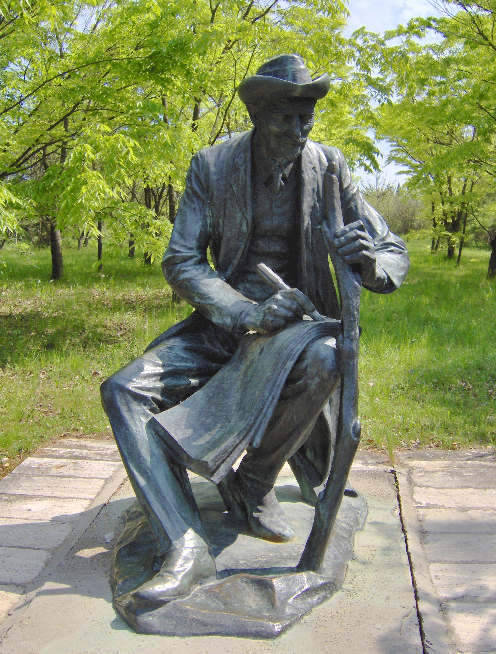 Ambrózy-Migazzi´s (1869-1933) sculpture, Arborétum Mlyňany